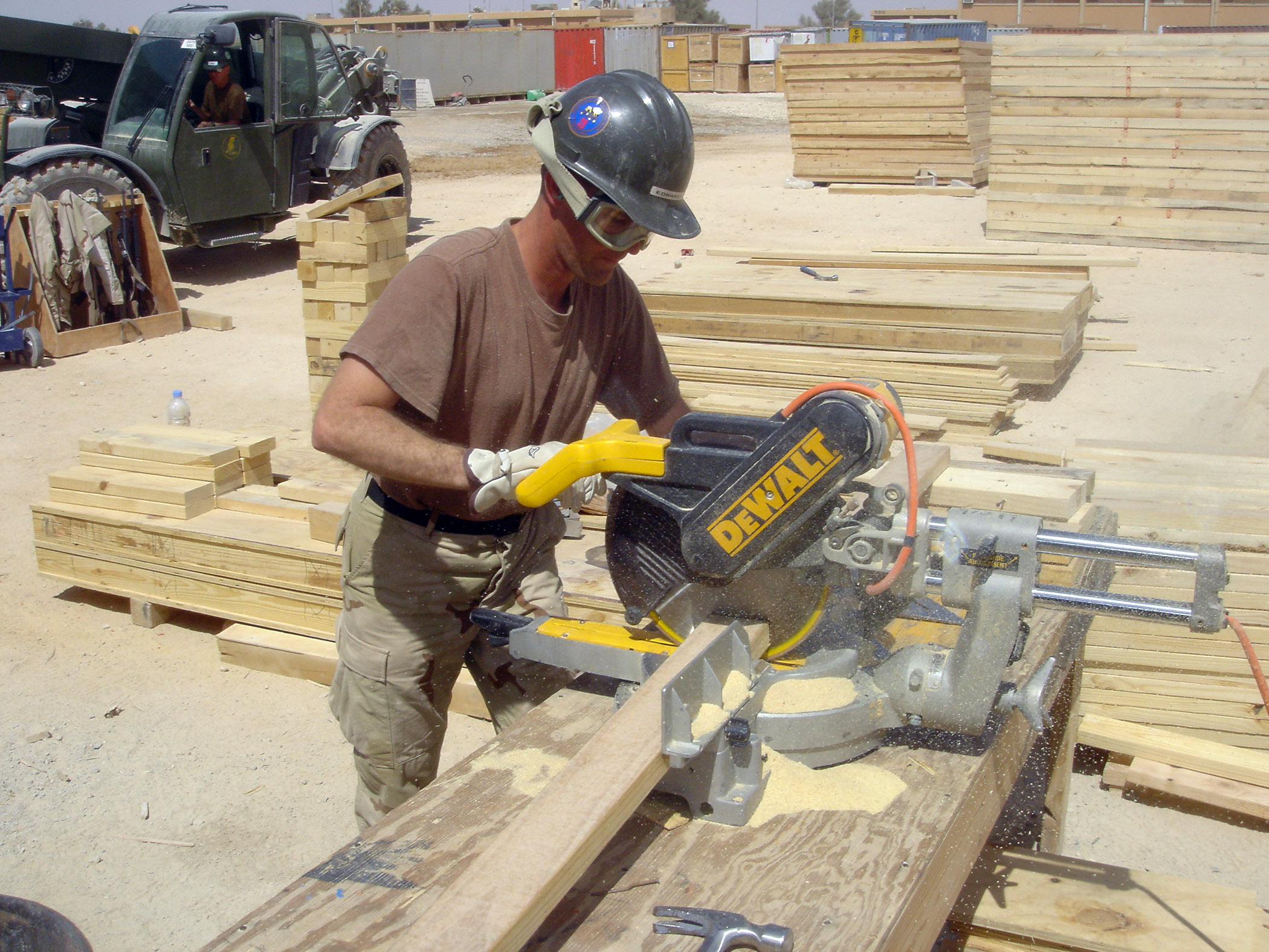 AL ASAD, Iraq (April 10, 2007) - Builder Constructionman Jeremy Edwards of Corpus Christi, Texas, saws a two-by-four for a Modular Protected Billeting (MPB) facility in support of a Naval Mobile Construction Battalion (NMCB) 28 project in the Al Anbar province of Iraq. U.S. Navy photo by Lt. Cmdr. Christa Ford (RELEASED)